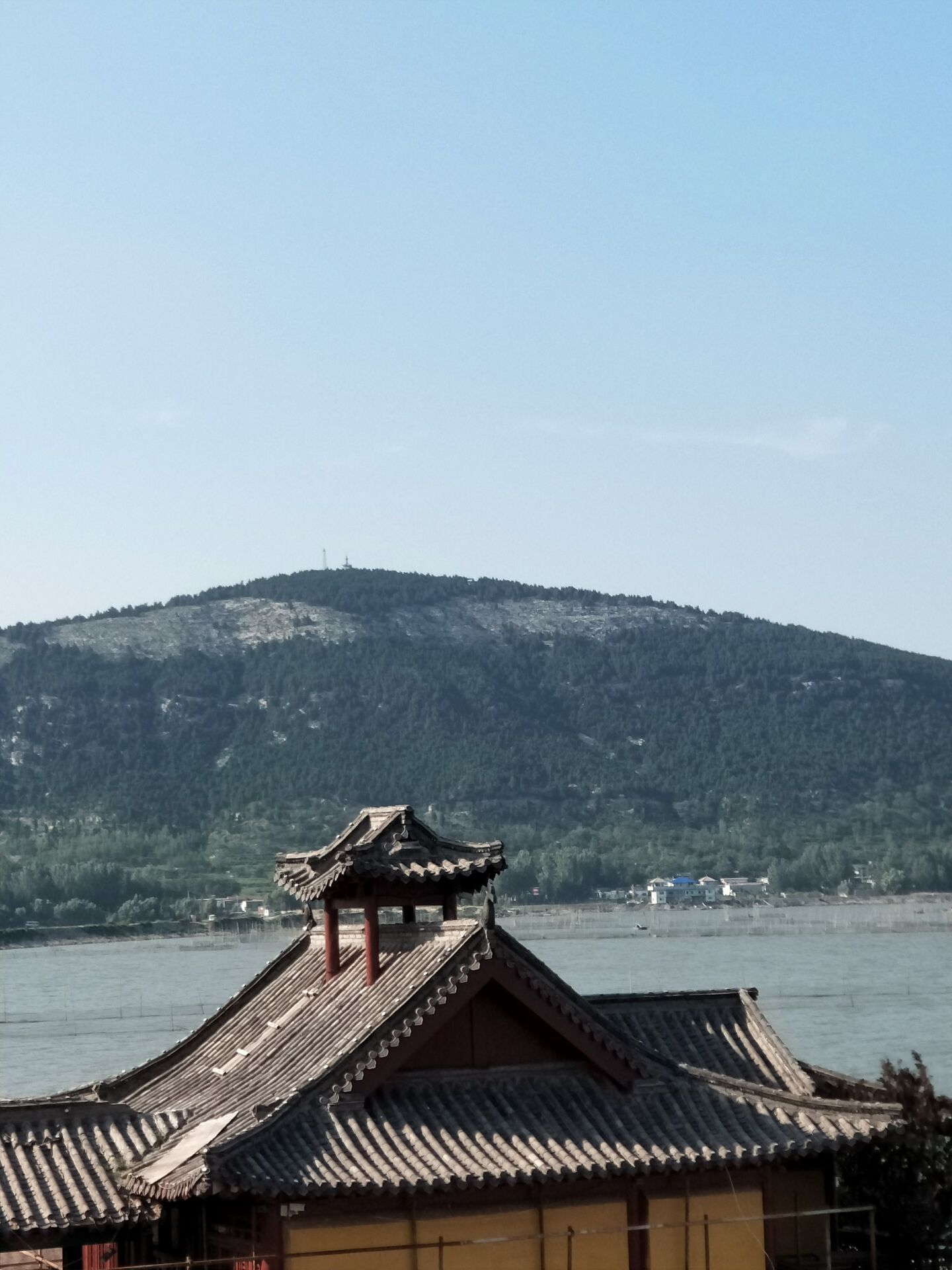 Yinshan Town